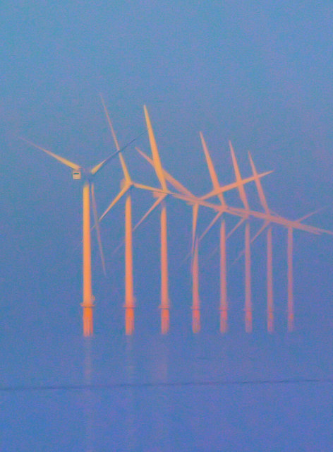 Off shore wind turbines bathed in mist and warm autumnal sunshine. The turbines are located on Burbo Bank about 4 miles offshore